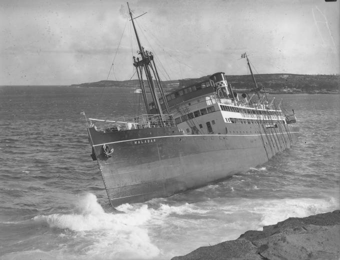 MV Malabar aground off Long Bay headland (Malabar) in Sydney, NSW. Visiting the wreck was a popular outing for Sydneysiders. The ship was operated by Burns, Philp & Co and carrying passengers and cargo when she grounded on 2 April 1931 in poor visibility.This photo is part of the Australian National Maritime Museum’s Samuel J. Hood Studio Collection. Sam Hood (1870-1956) was a Sydney photographer with a passion for ships. His 72-year career spanned the romantic age of sail and two world wars. The photos in the collection were taken mainly in Sydney and Newcastle during the first half of the 20th century.Object no. 00035918Malabar NSW was named after MV Malabar, a Burns, Philp & Co passenger and cargo steamer that was shipwrecked at Long Bay on April 2, 1931. The ship was named after Malabar, Dutch East Indies. Prior to the wreck, the suburb was known as either Brand or Long Bay. Following a petition by local residents, the new name was gazetted on September 29, 1933. There have been five shipwrecks on the headland at Malabar - St Albans in 1882, MV Malabar in 1931, Try One in 1947, SS Goolgwai in 1955 and an unnamed barge in 1955. These wrecks are detailed in a book - From Long Bay to Malabar- A Village by the Sea.